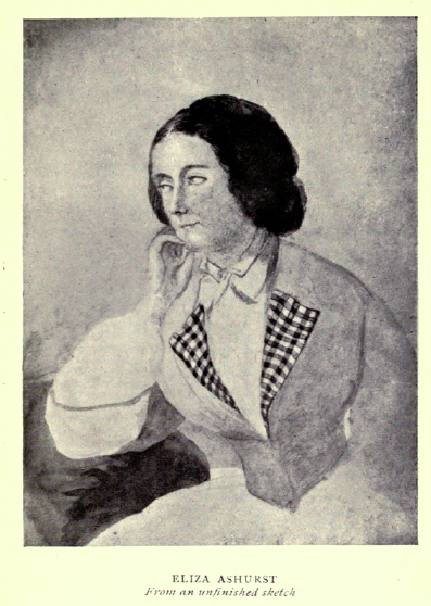 Eliza Ashurst, loose sketch.png